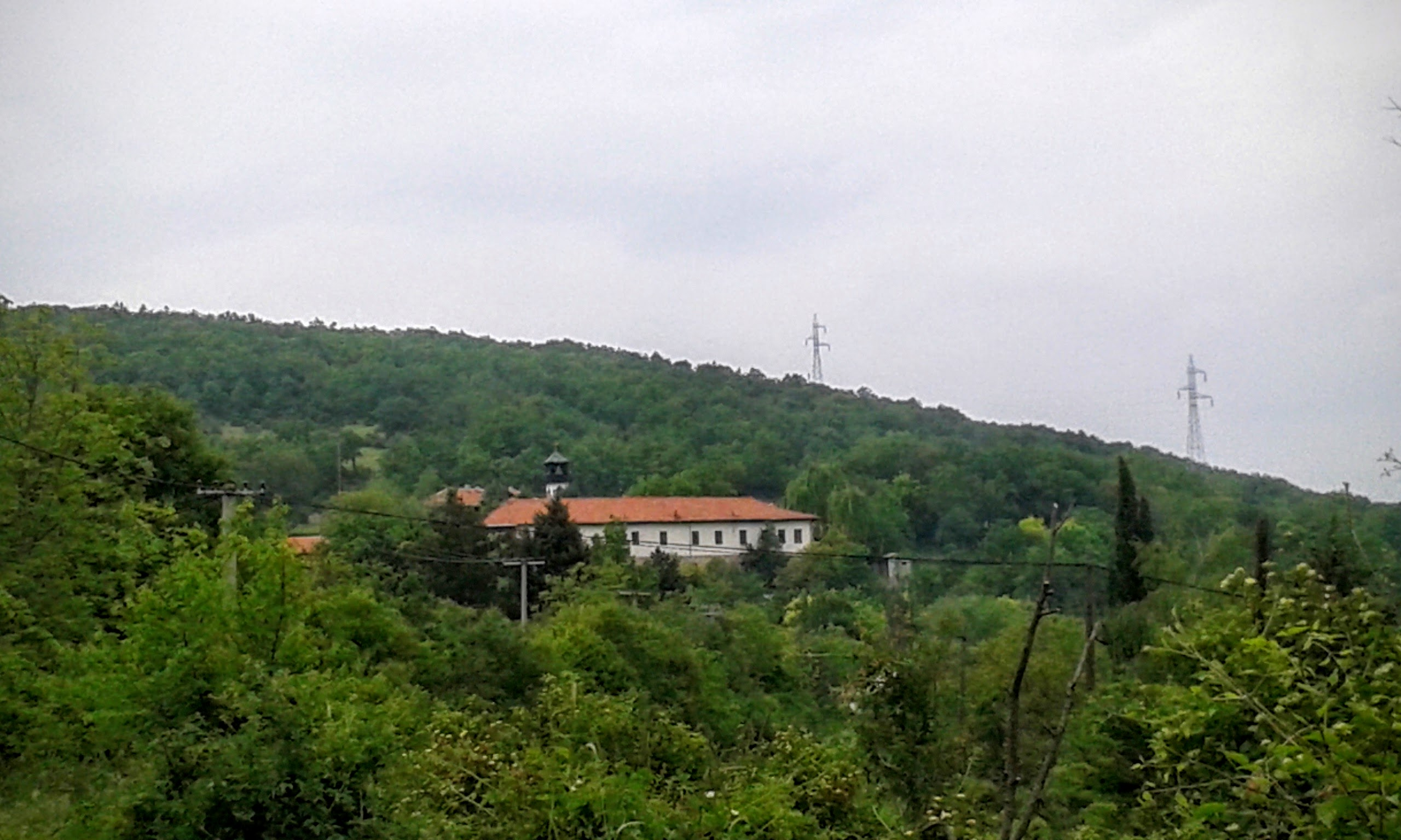 View of Kučkovo Monastery